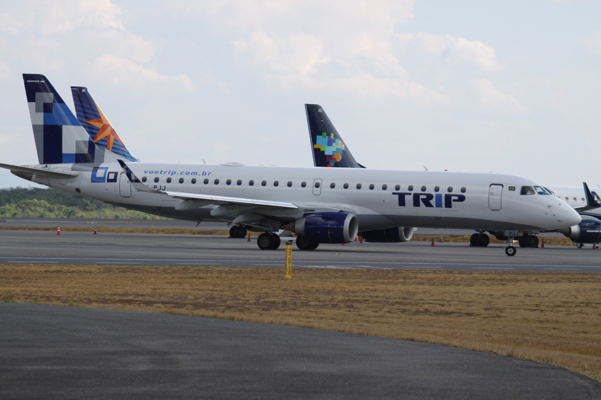 At Belo Horizonte Tancredo